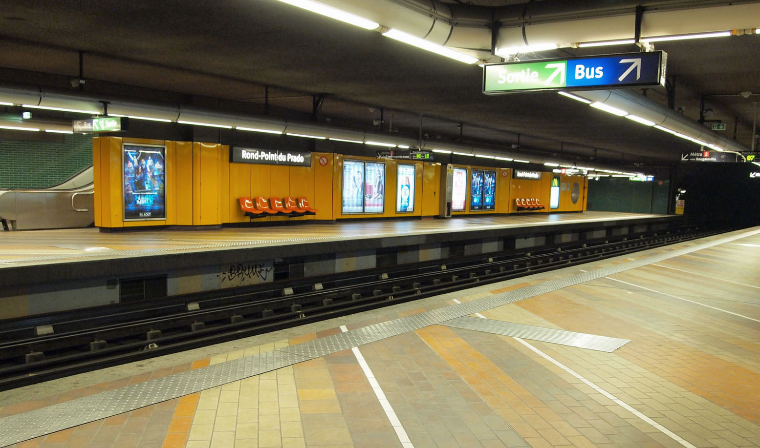 Metro station Rond-Point du Prado in Marseille. This photograph was taken with a Olympus E-PL1.